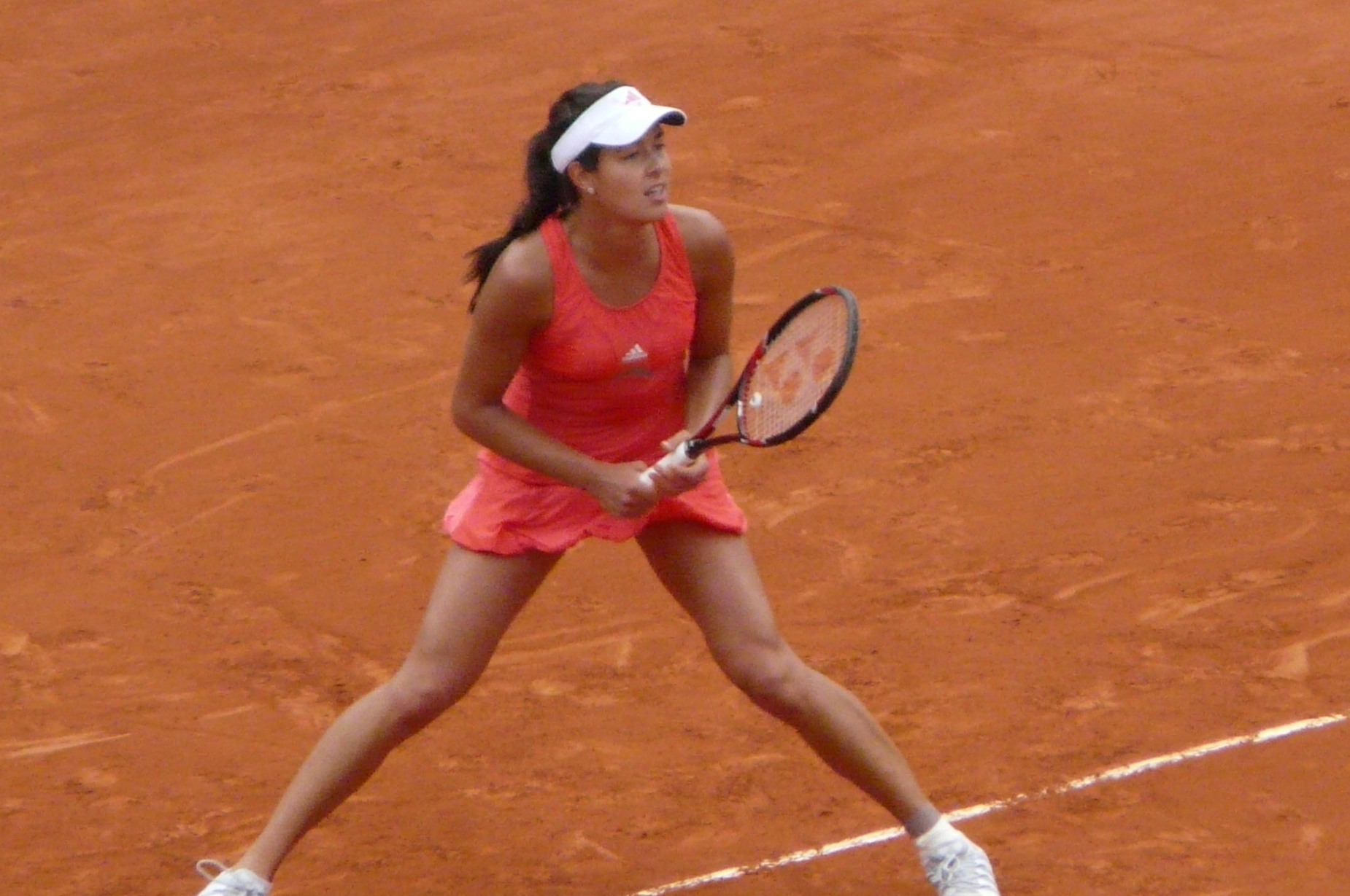 Ana Ivanović against Patty Schnyder in the 2008 French Open quarterfinals